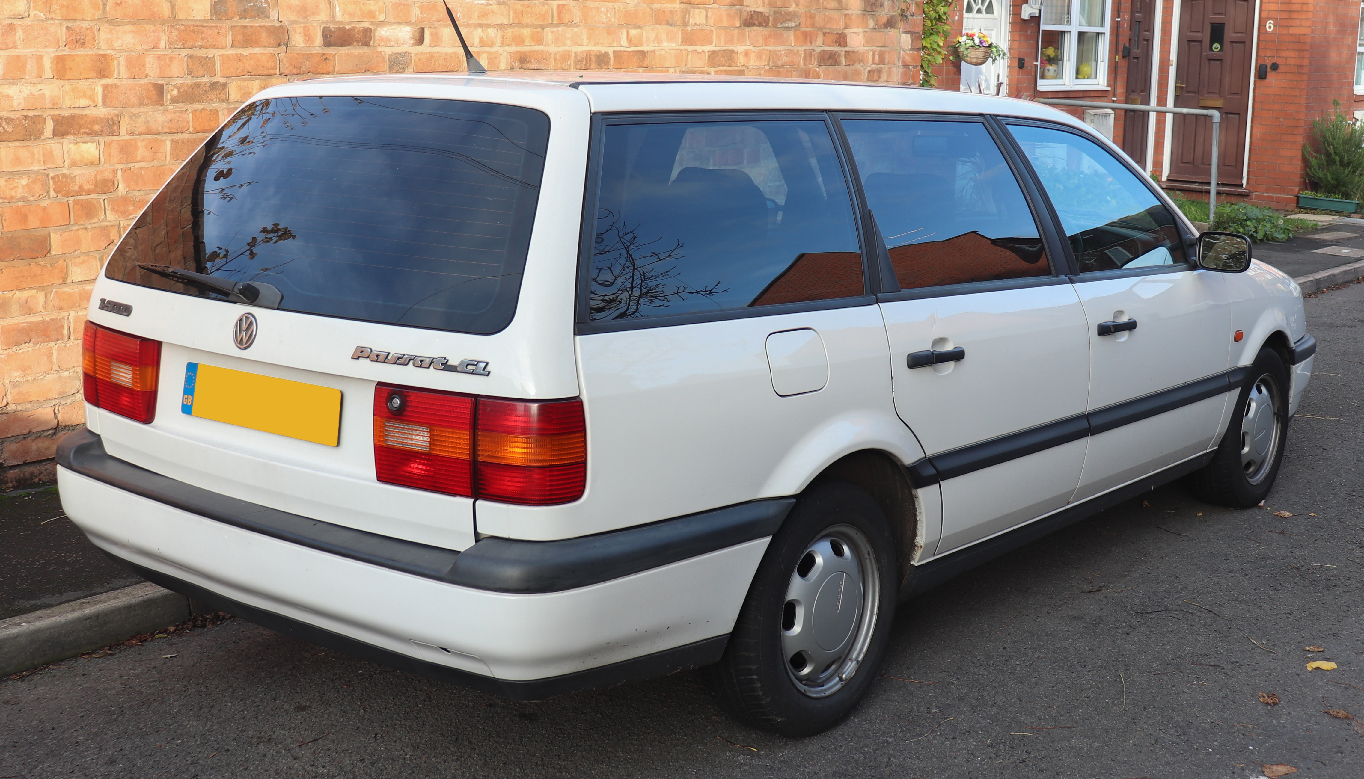 1995 Volkswagen Passat Variant CL TD Umwelt 1.9 Rear Taken in Leamington Spa